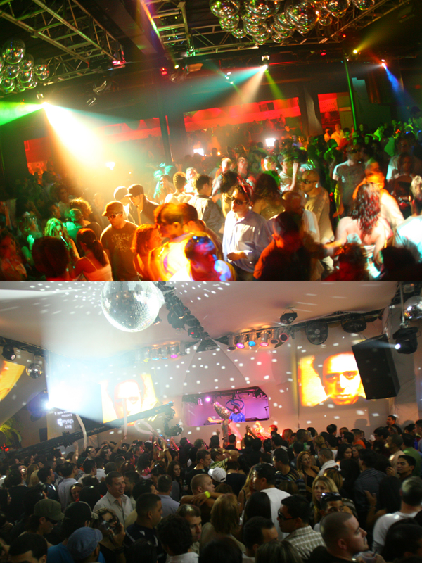 Scenes from Club Space in Downtown Miami. Photos by myself.